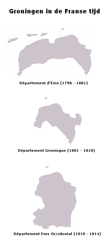 Map of the current province of Groningen and the different departments it belonged to.